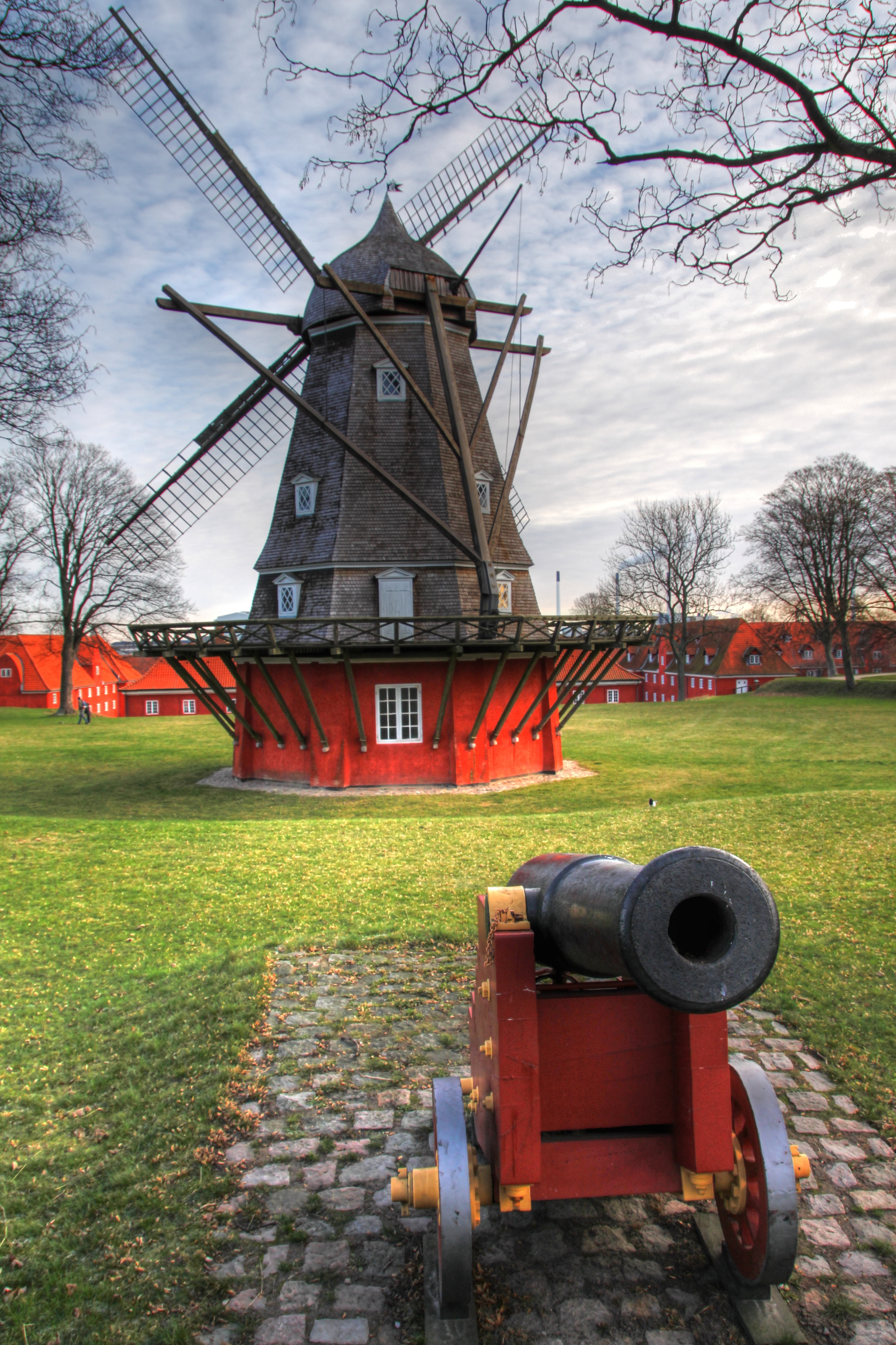 The windmill at Kastellet in Copenhagen, Denmark War and Peace